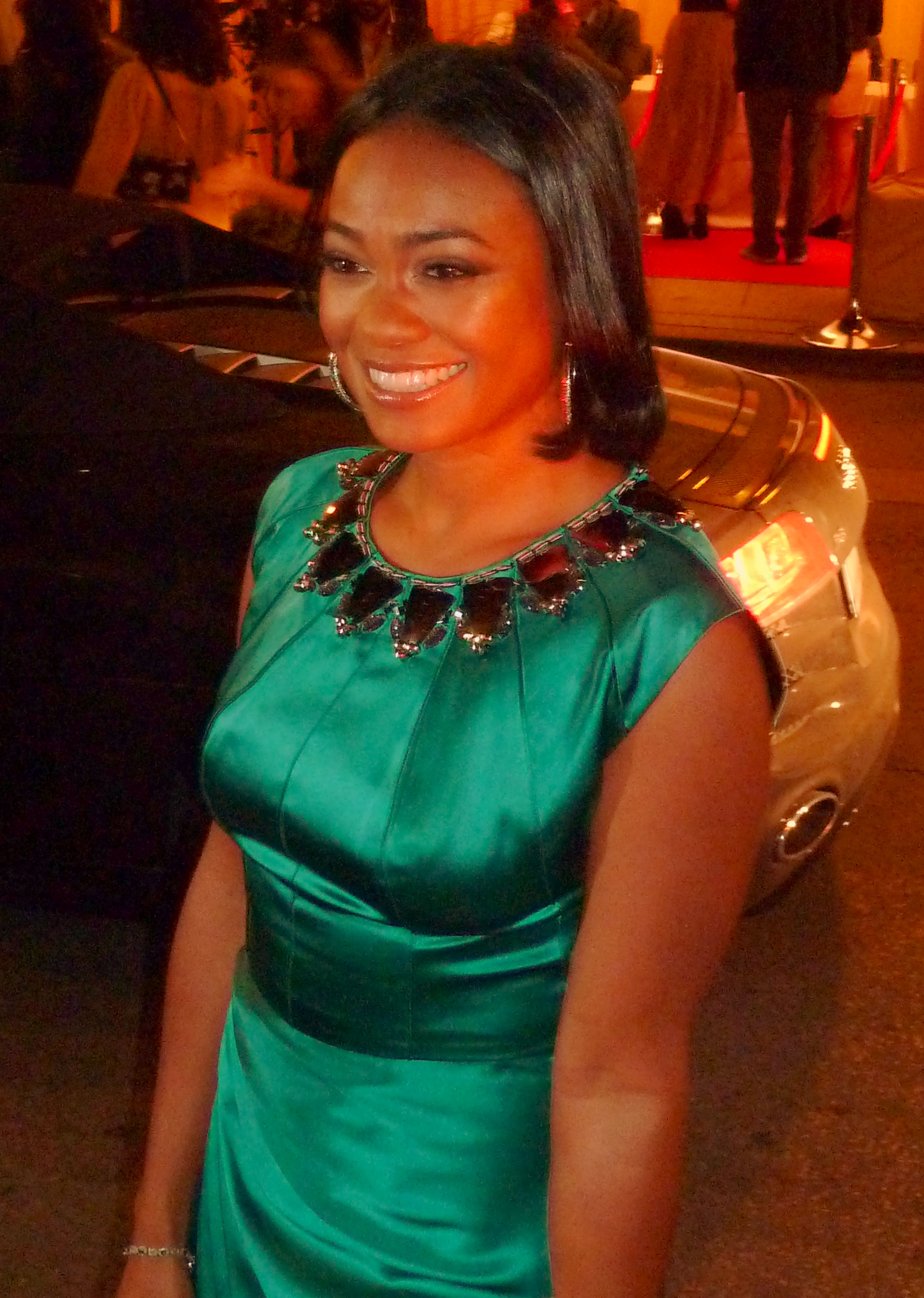 Tatyana Ali at the InStyle Party, Toronto Film Festival 2012